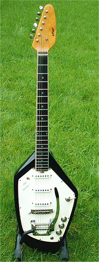 A black 1966 Vox Phantom. Probably manufactured in Italy.